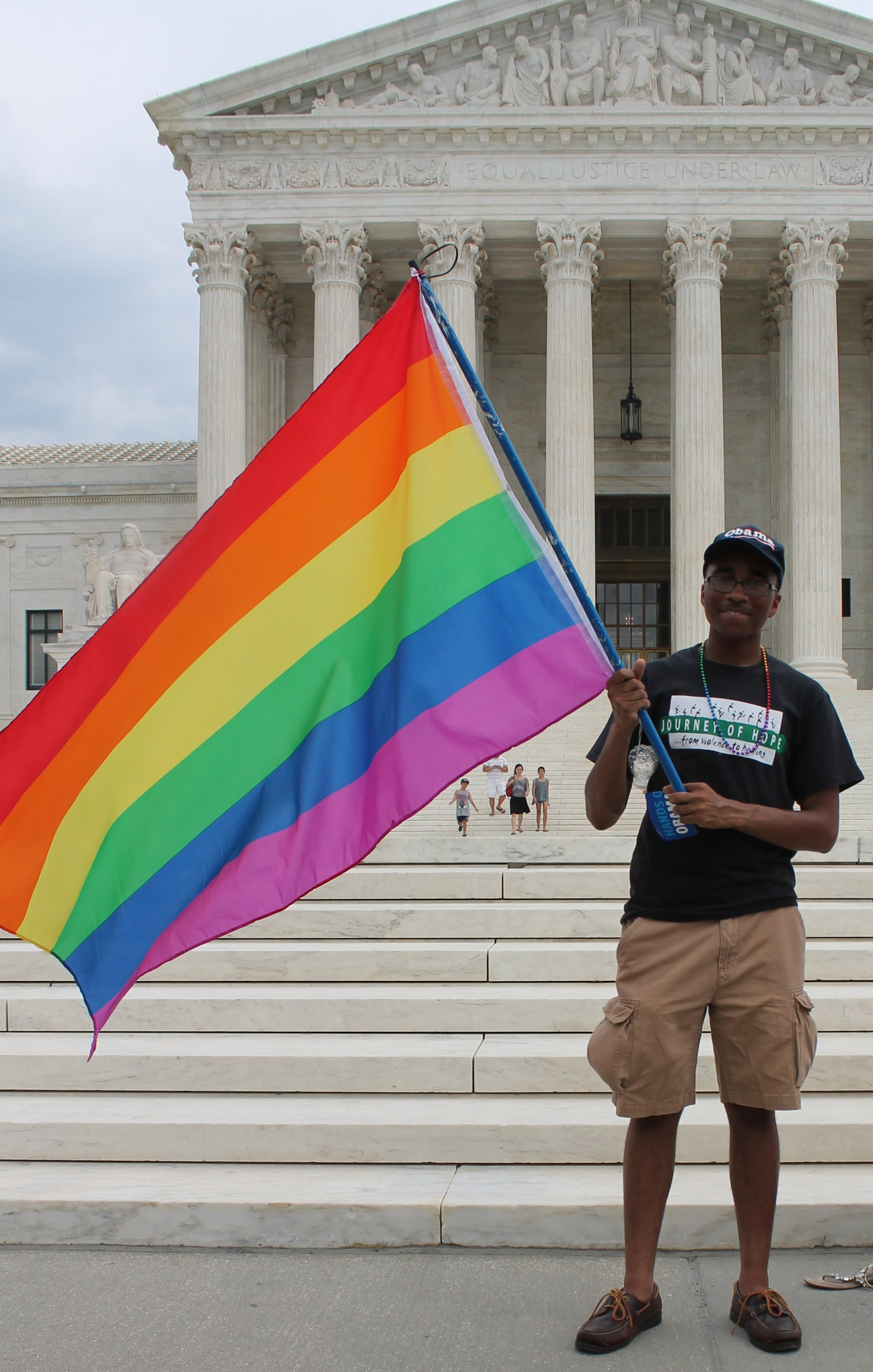 Lone Demonstrator in support of GAY MARRIAGE EQUALITY in front of the US Supreme Court on First Street between East Capitol Street and Maryland Avenue, NE, Washington DC on Thursday afternoon, 25 June 2015 by Elvert Barnes Protest Photography Visit Elvert Barnes MARRIAGE EQUALITY same-sex civil unions ongoing project at